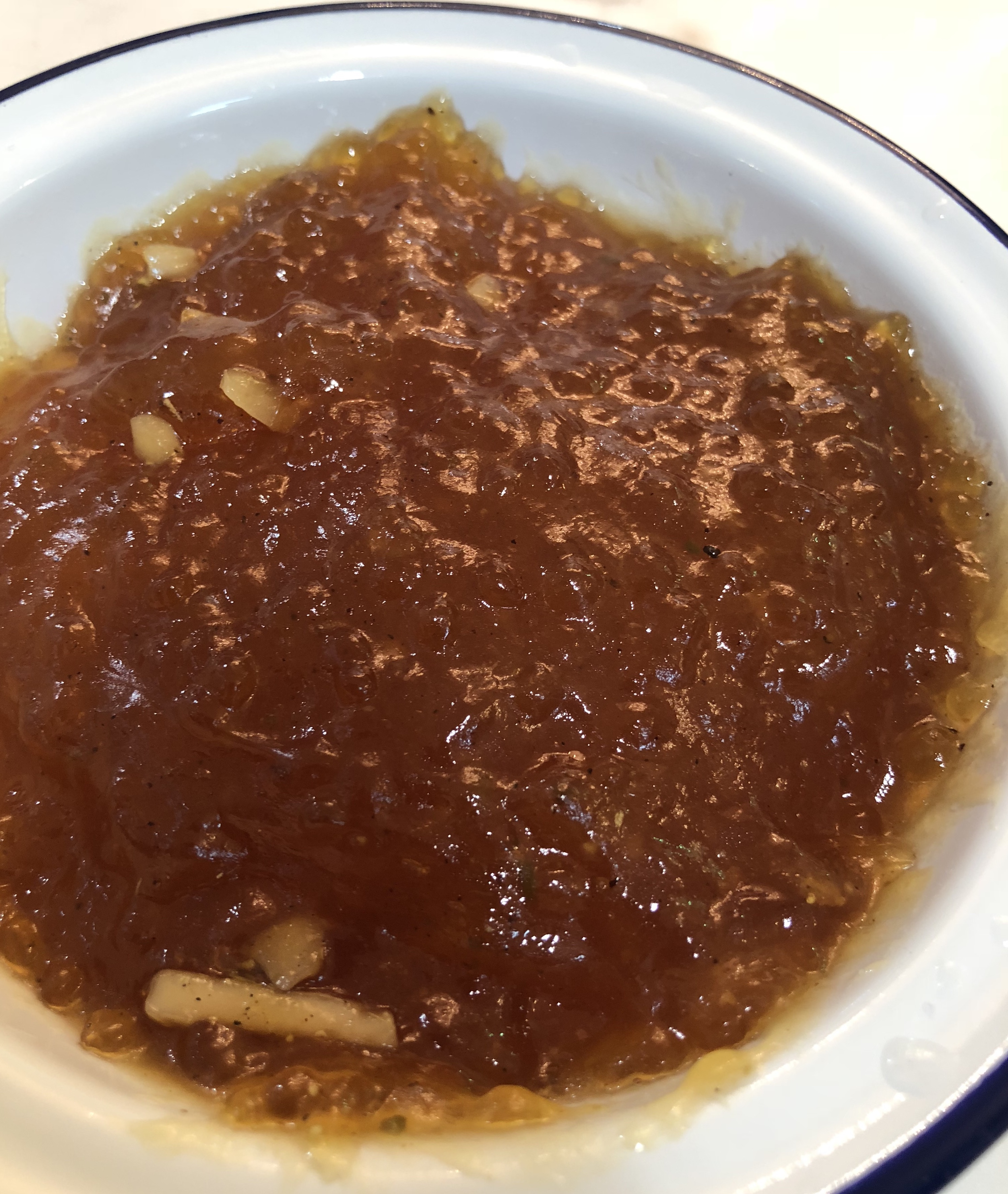 sticky pudding